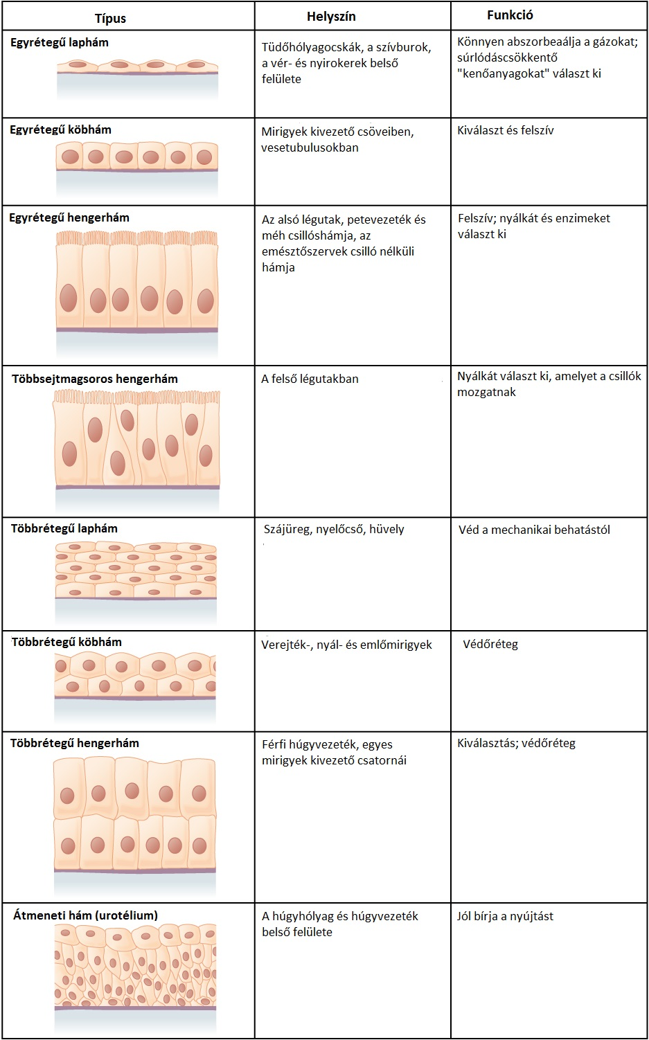 Summary of epithelial tissue in Hungarian